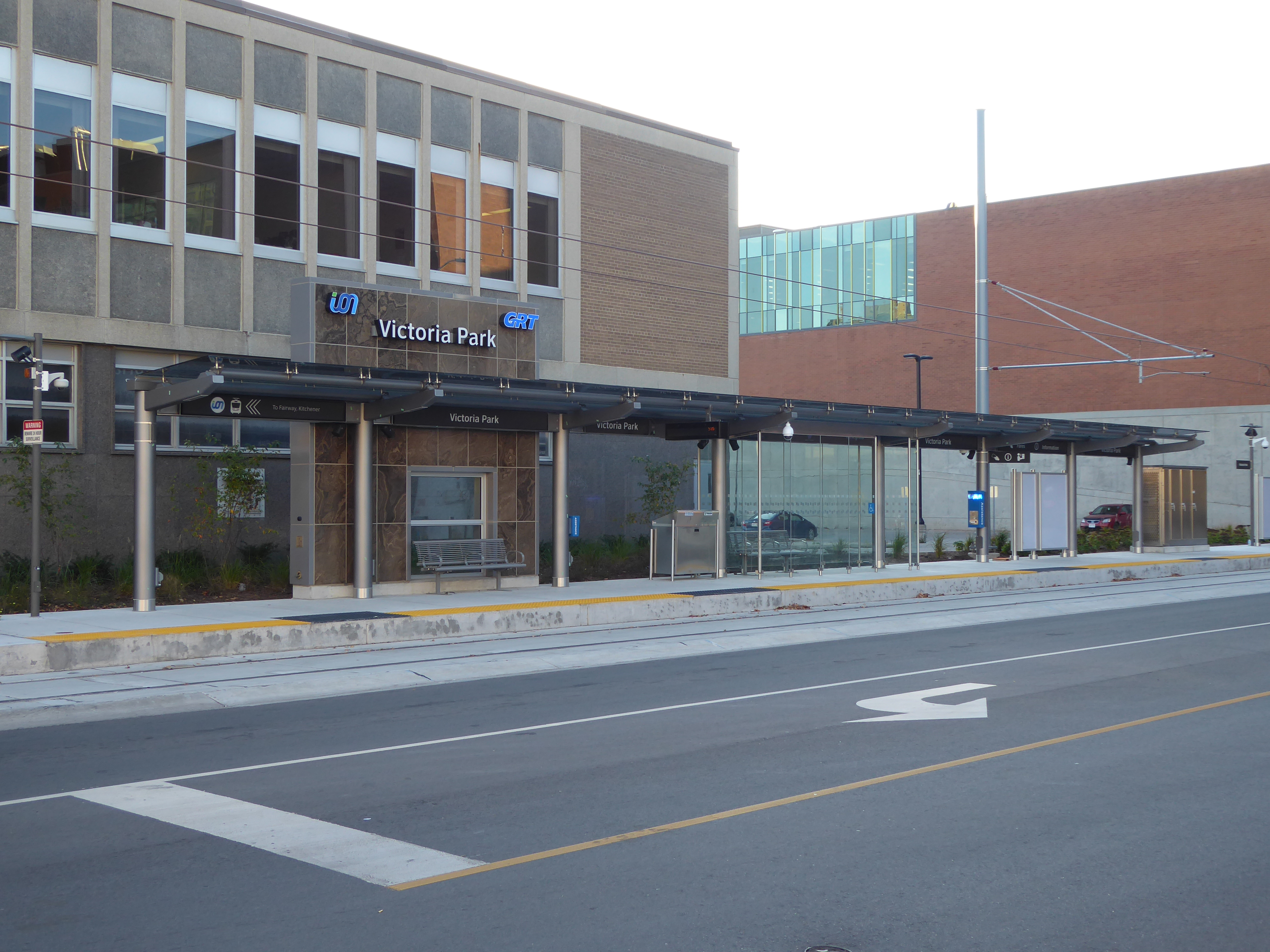 Victoria Park Station of the Ion rapid transit system, photographed structurally complete October 2017